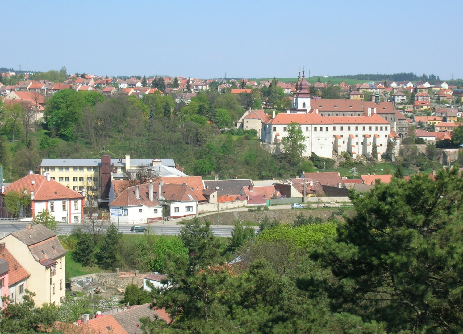 Třebíč. Podklášteří town district